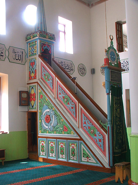 Mosque in Batumi